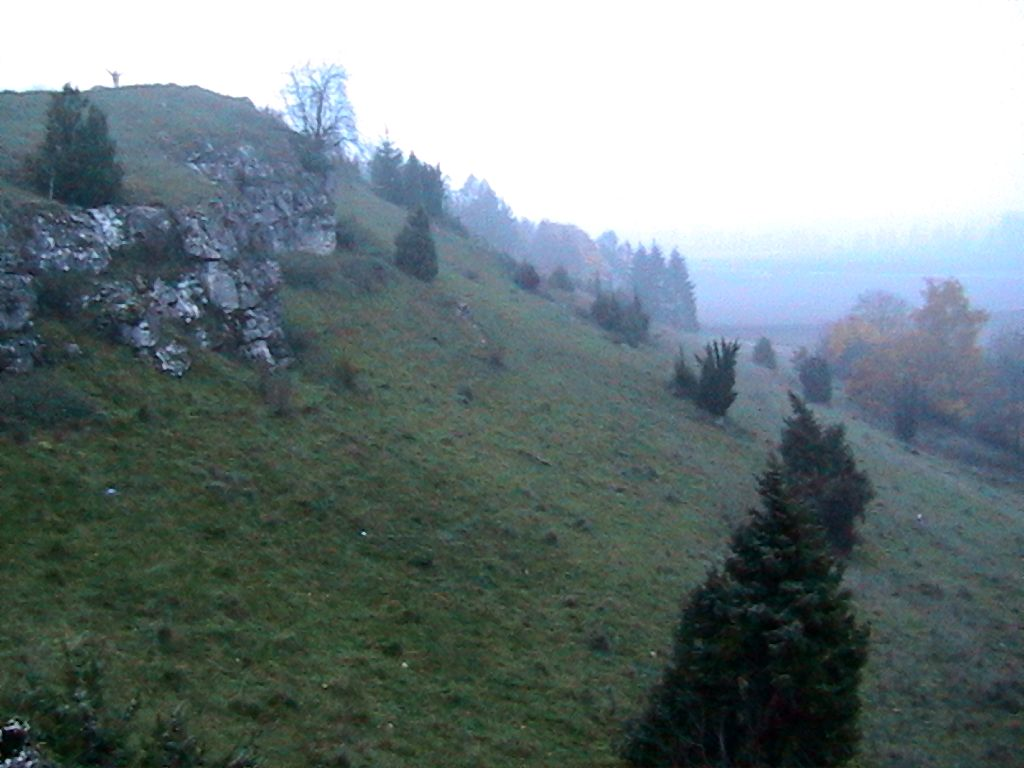 Nördlinger Ries, view of the southern crater rim near the village of Mönchsdeggingen. Shattered limestone blocks mark the crater rim on the left, and the flat crater floor is visible in the background at right. Note the person standing on the rim at far left.